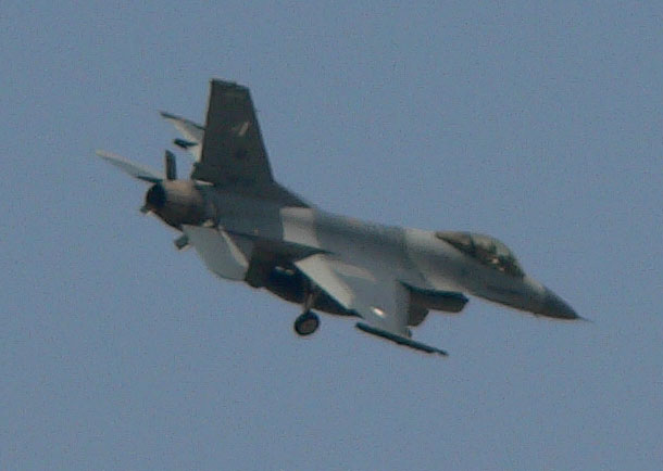 A Pakistan Air Force F-16A approaching the runway at Lahore.